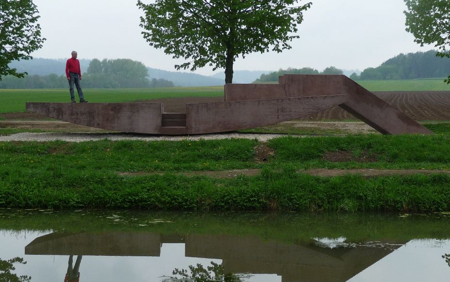 Sculpture "Schiffbar" at the historic "Ludwigskanal" in Berg at Neumarkt i.d. OPf.